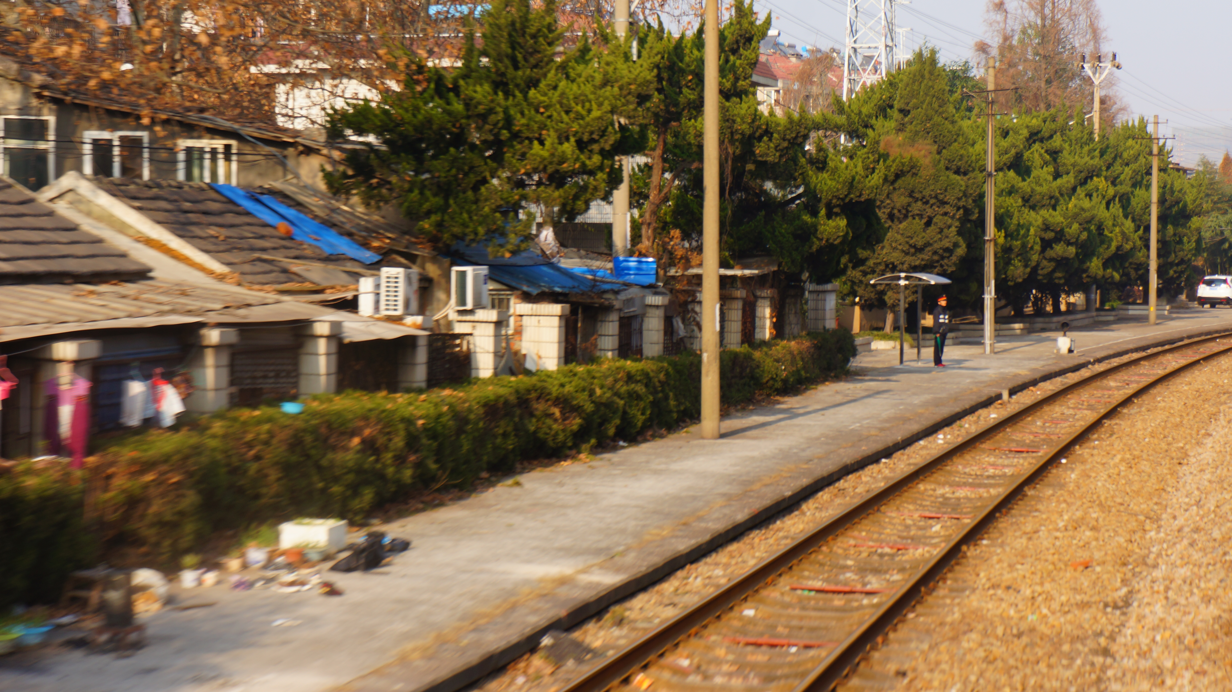 201601Xishanqiao Railway Station